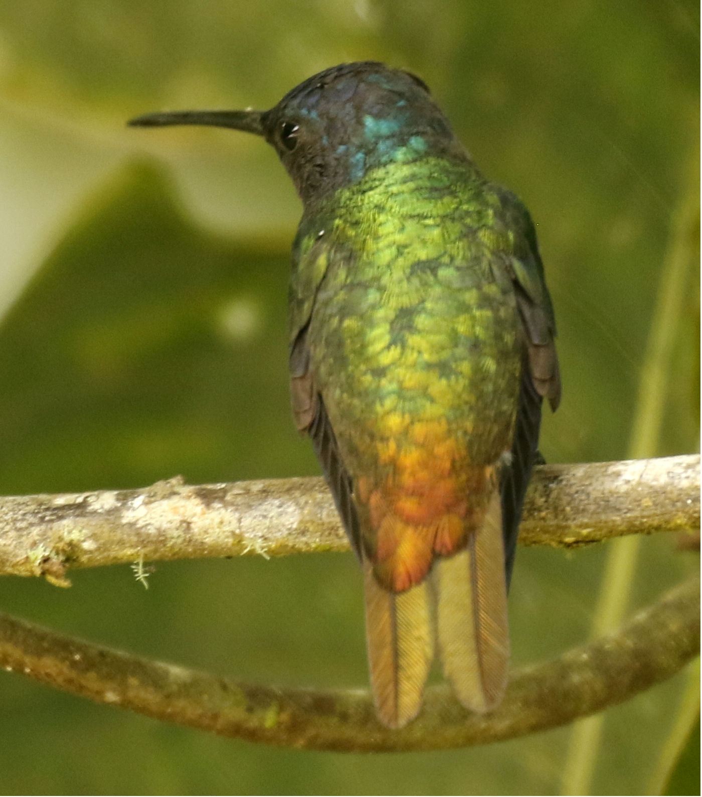 Wildsumaco Lodge - Ecuador